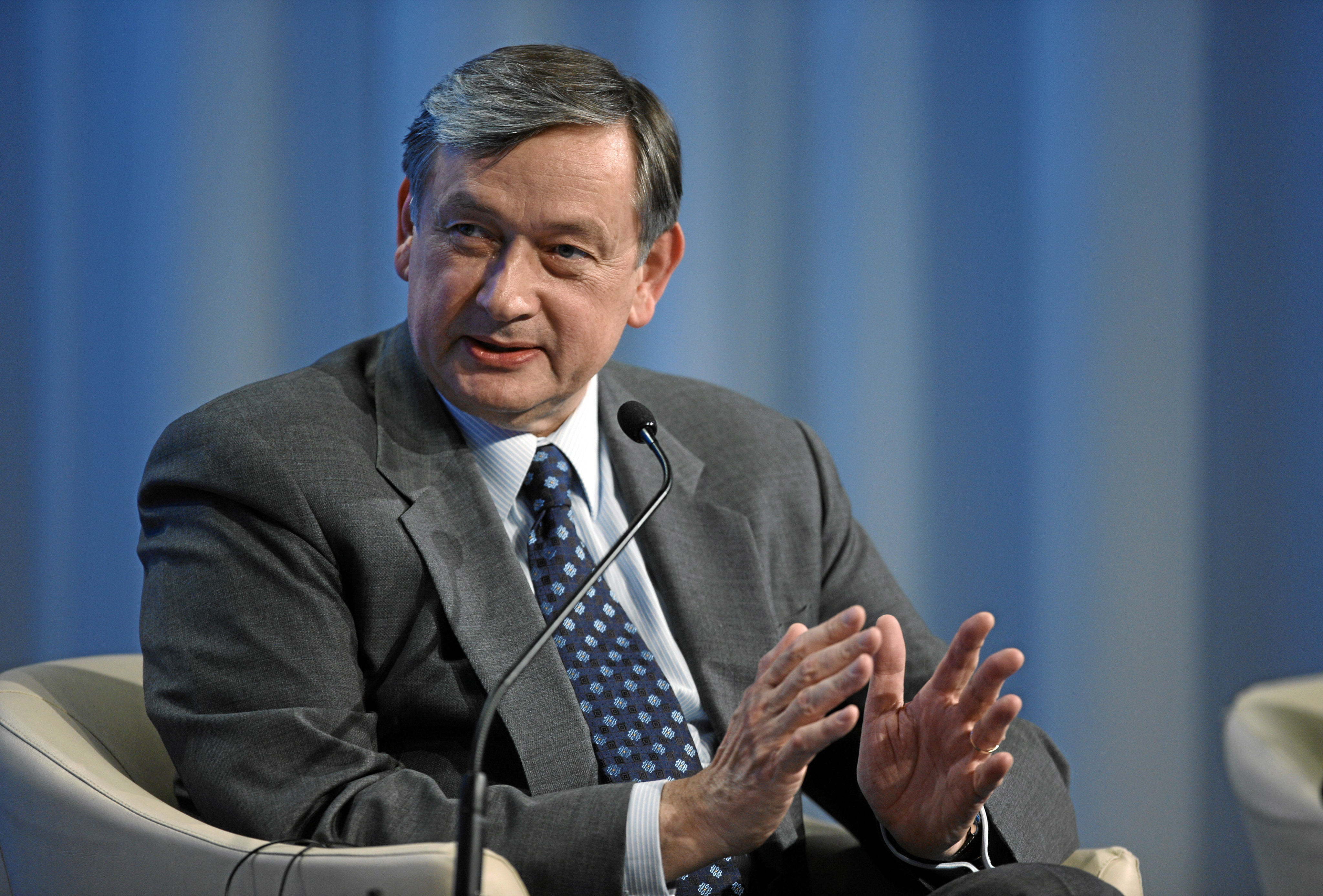 DAVOS/SWITZERLAND, 28JAN10 - Danilo Türk, President of Slovenia during the session 'The New Growth Narrative' at the Congress Centre at the Annual Meeting 2010 of the World Economic Forum in Davos, Switzerland, January 28, 2010..